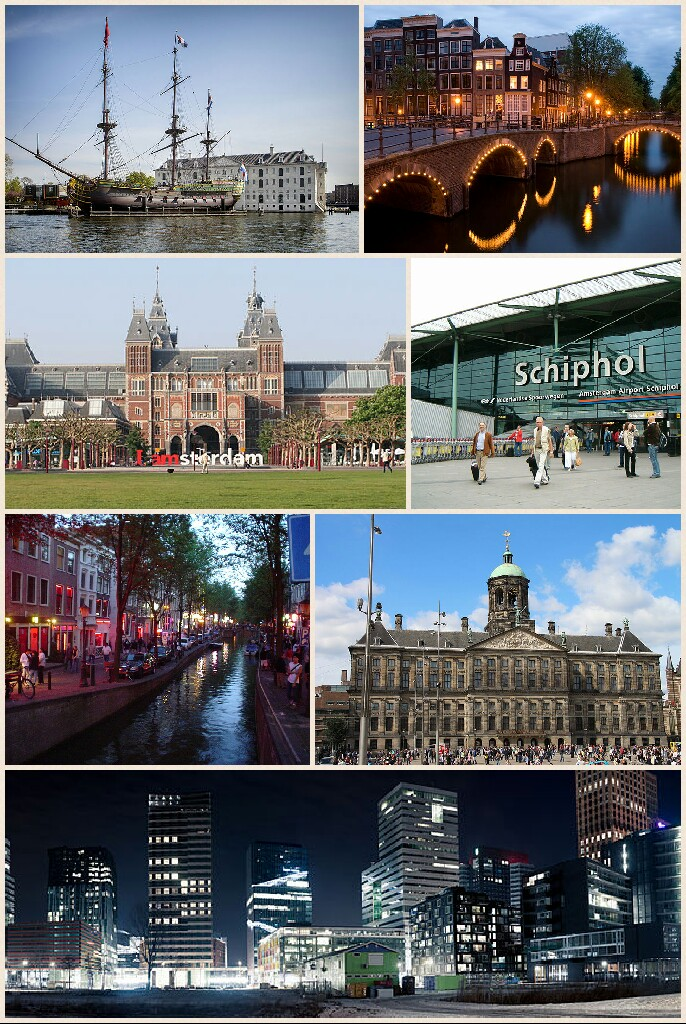 Montage of Amsterdam, Netherlands.